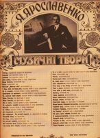 Cover of collection of printed music by Ukrainian composer Yaroslav Yaroslavenko.